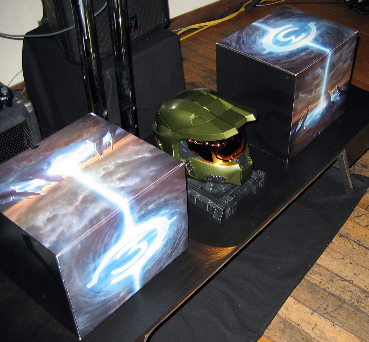 The box of the Halo 3 "Legendary Edition".